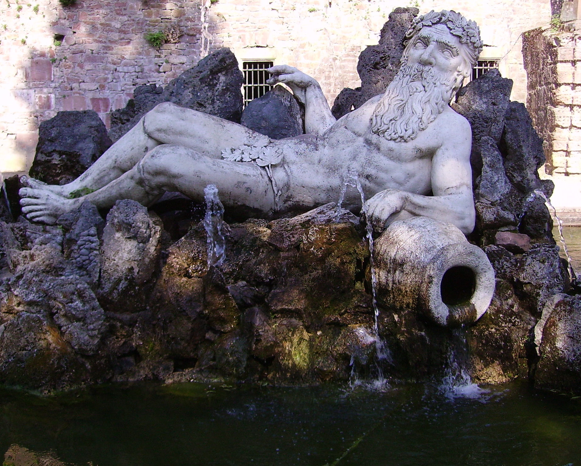 part of Heidelberg castle (Heidelberger Schloss)